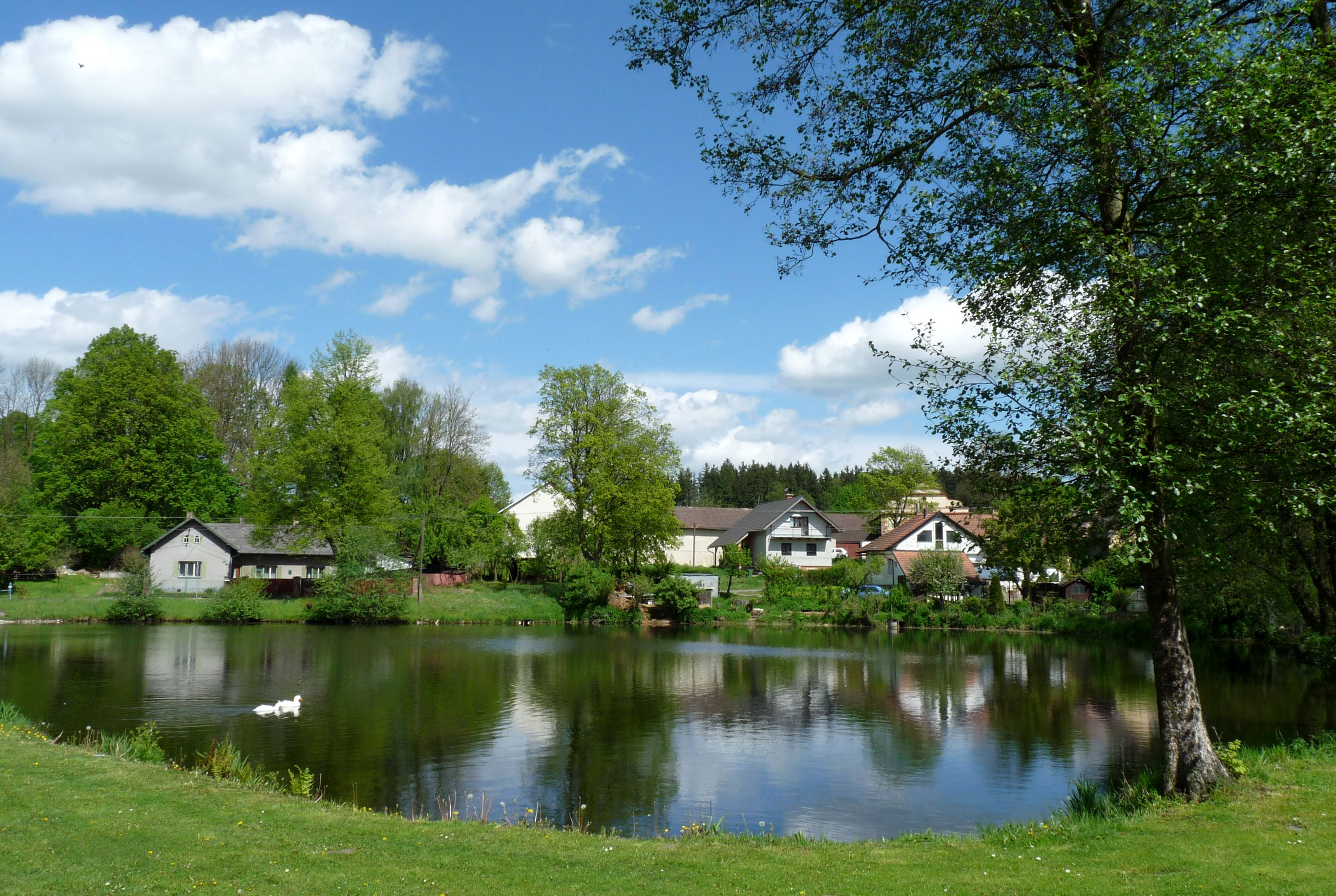 Village pond in the village of Utín, prat of the town of Přibyslav, Havlíčkův Brod District, Vysočina Region, Czech Republic.